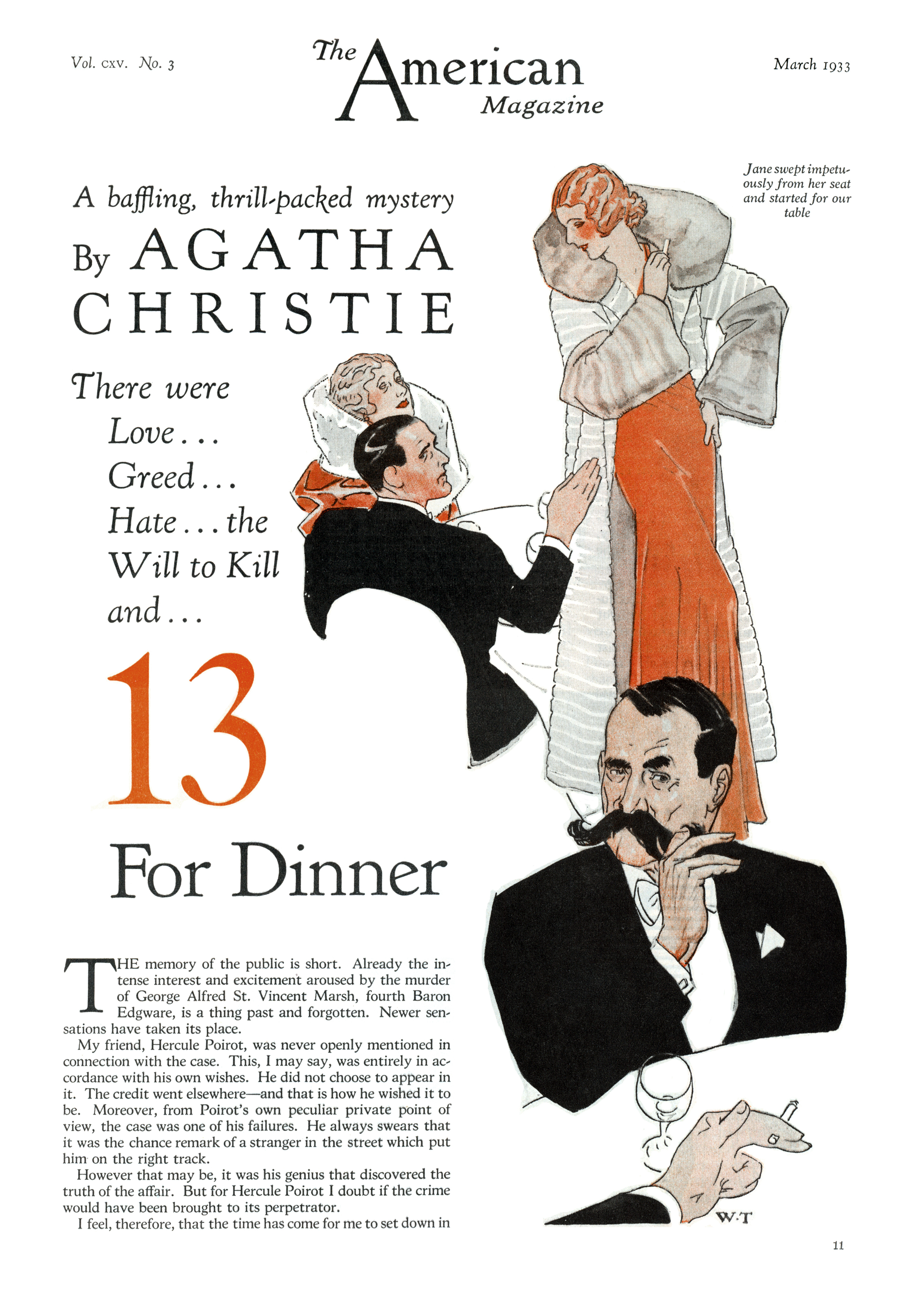 Illustration from The American Magazine March 1933 printing of 13 For Dinner, a novel by Agatha Christie; this is the first of six issues that serialized the novel Lord Edgware Dies under this alternate title. The illustration presents a notable early depiction of Hercule Poirot, in the only Agatha Christie novel first printed in serialized form in The American Magazine.